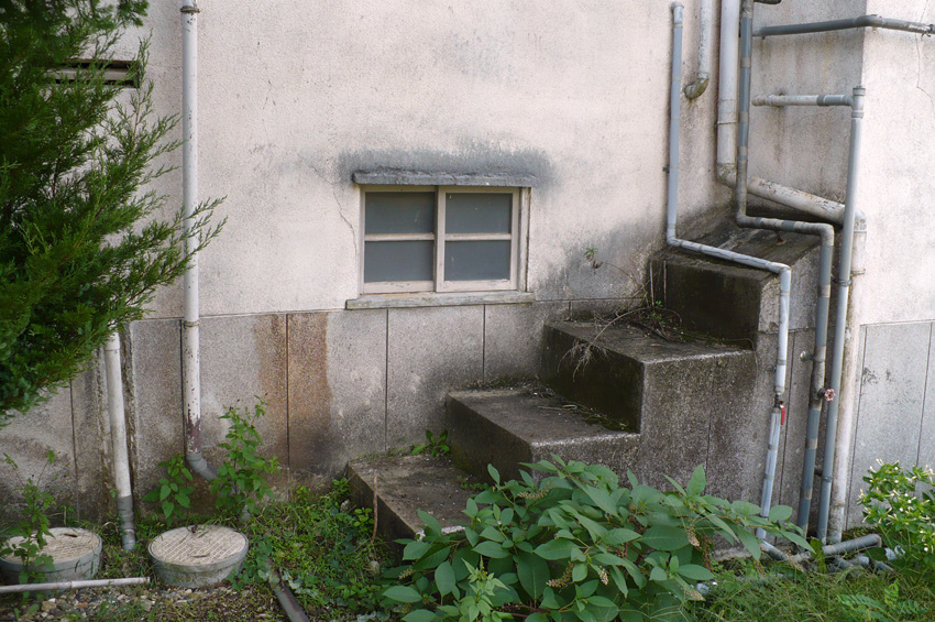 this was taken at teshima in Japan in 2010. dmc-lz7 トマソン